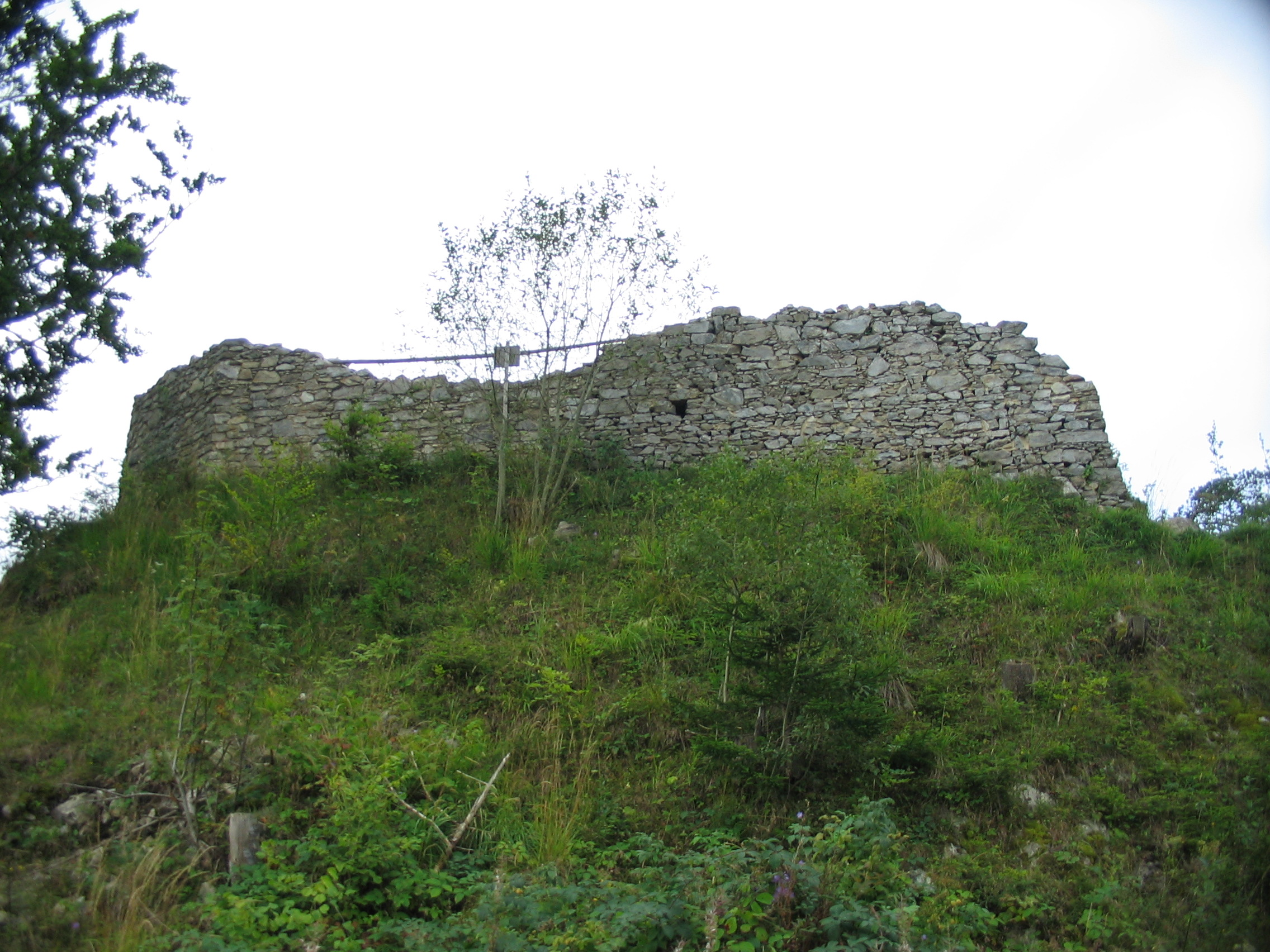 Pustý hrádek ("Empty Castle") near the castle Kašperk, Klatovy District, Czech Republic